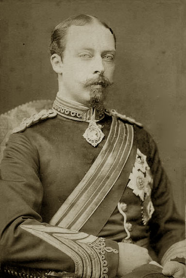 The Prince Leopold, Duke of Albany. Touched up in photoshop.